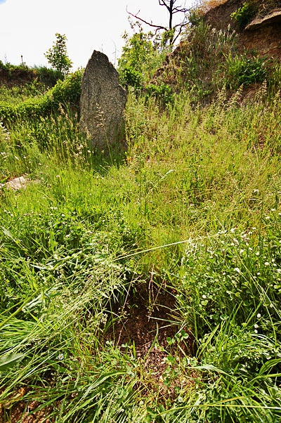 Kromlex near Staro Zhelezare